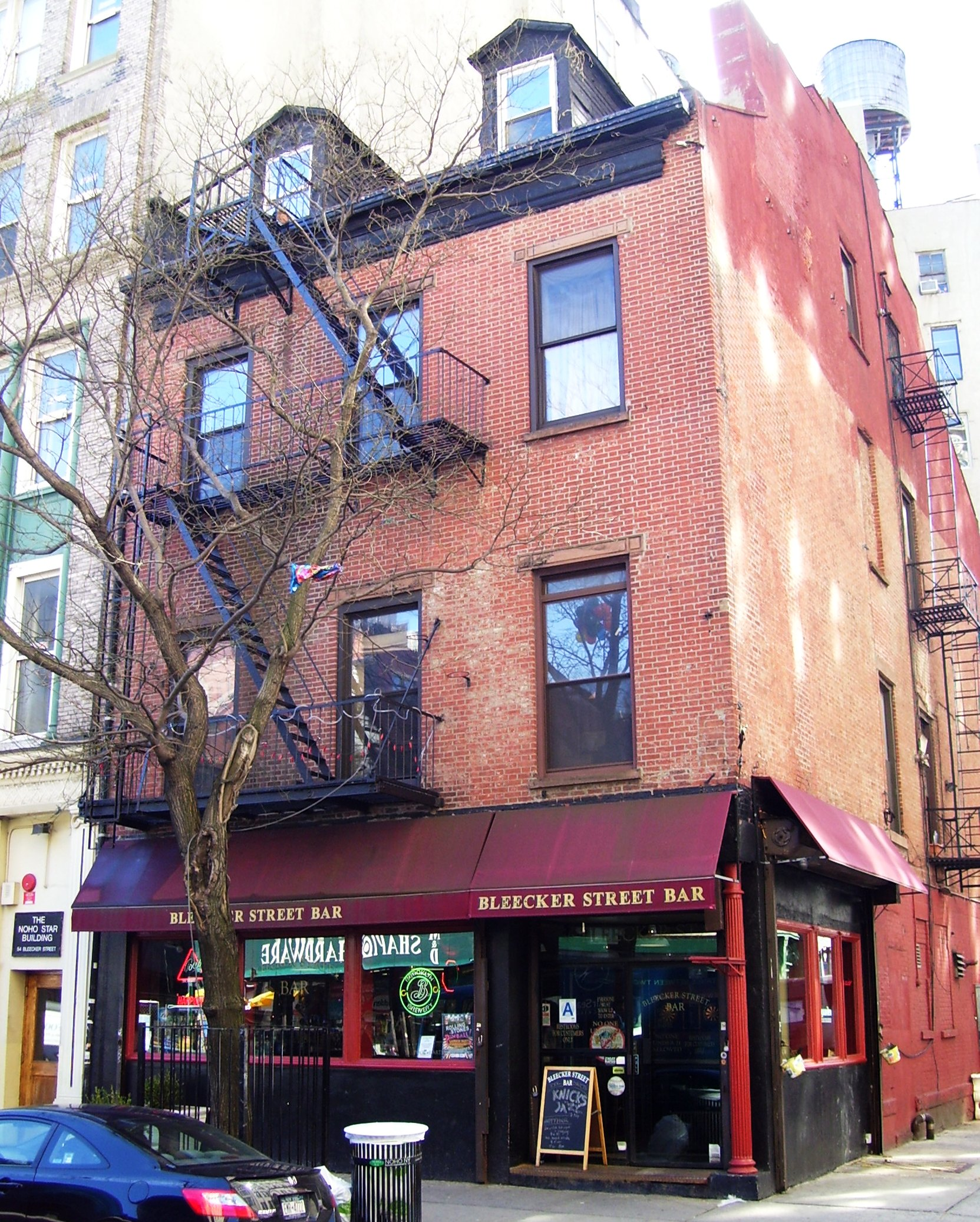 The 3 1/2-story James Roosevelt House at 58 Bleecker Street between Broadway and Lafayette Streets, on the corner of Crosby Street, in the NoHo neighborhood of Manhattan, New York City, was built c.1822-23 in the Federal style. It has an extant, although altered, 2-story carriage house in the rear, facing Crosby Street, which was probably built c.1825-27. James Roosevelt was Franklin Delano Roosevelt's great grandfather, and the founder of the Hyde Park branch of the Roosevelt family. In 1857, Elizabeth Blackwell, the first female doctor in the United States, opened the New York Infirmary for Women and Children in the building, and after 1891, the building began to be converted for commercial use. It is located in the NoHo Historic District. (Source: NYLPC NoHo Historic District Designation Report)